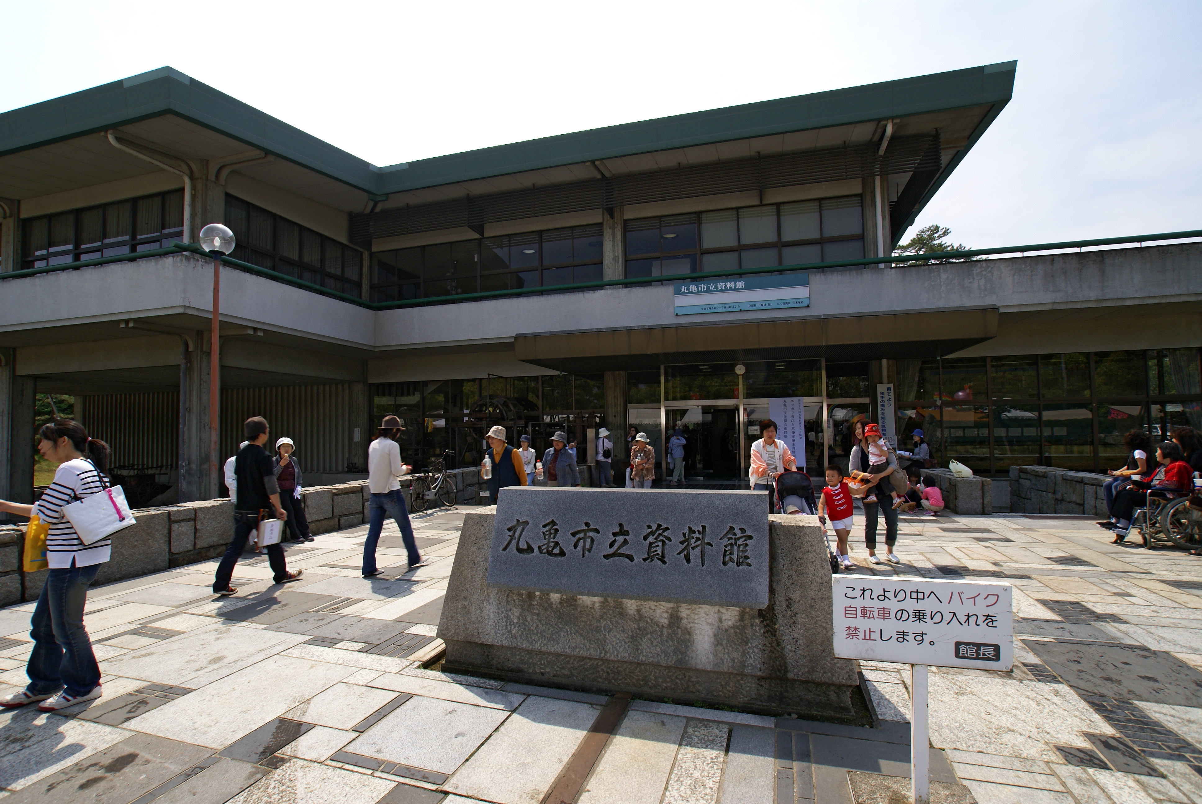 Marugame Municipal Archives Museum in Marugame, Kagawa prefecture, Japan